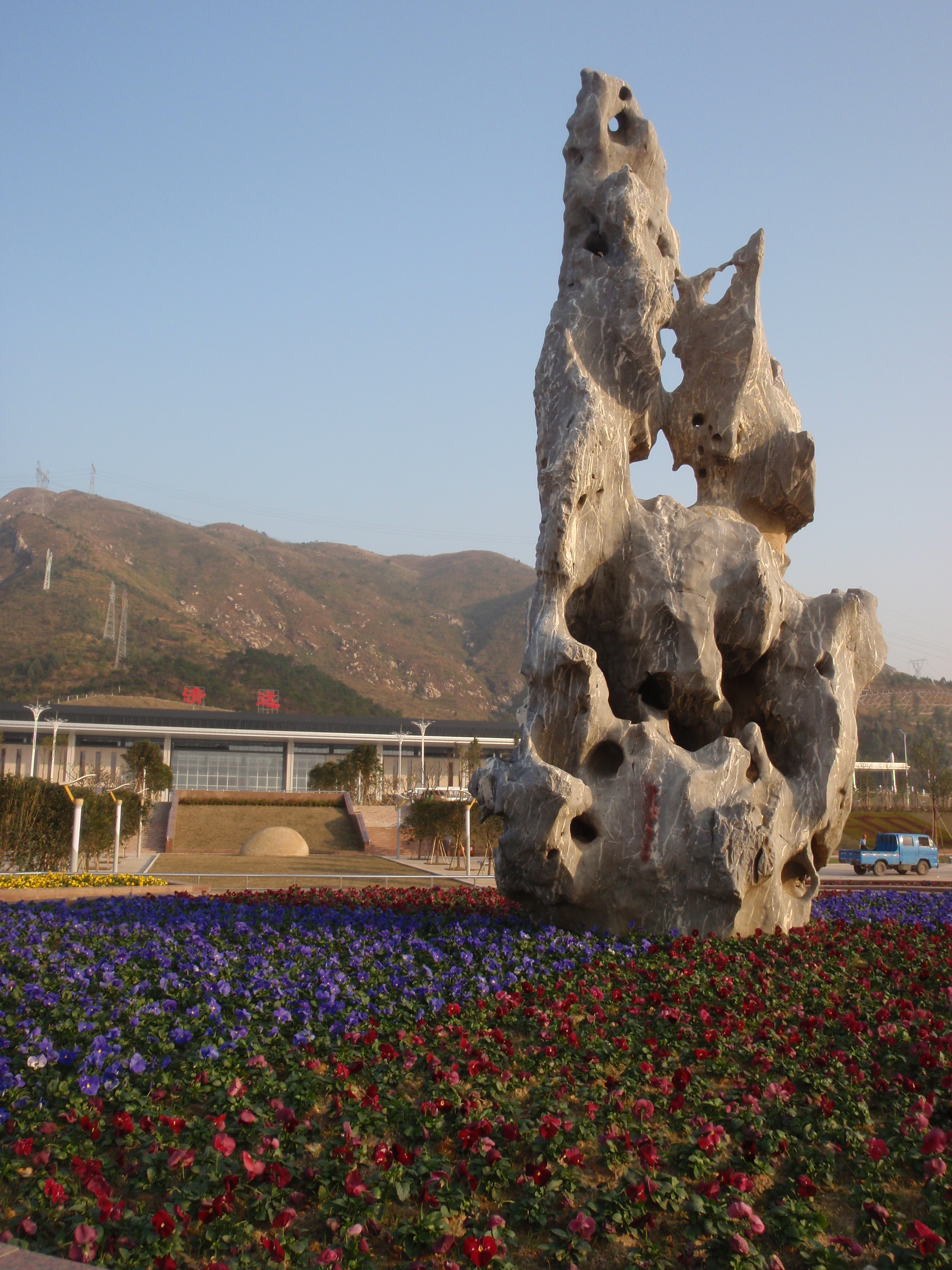 Qingyuan station, Wuguang Passenger Dedicated Line, Guangdong province, China.